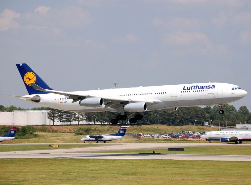 Lufthansa Airbus A340-313X arriving in Charlotte from Munich